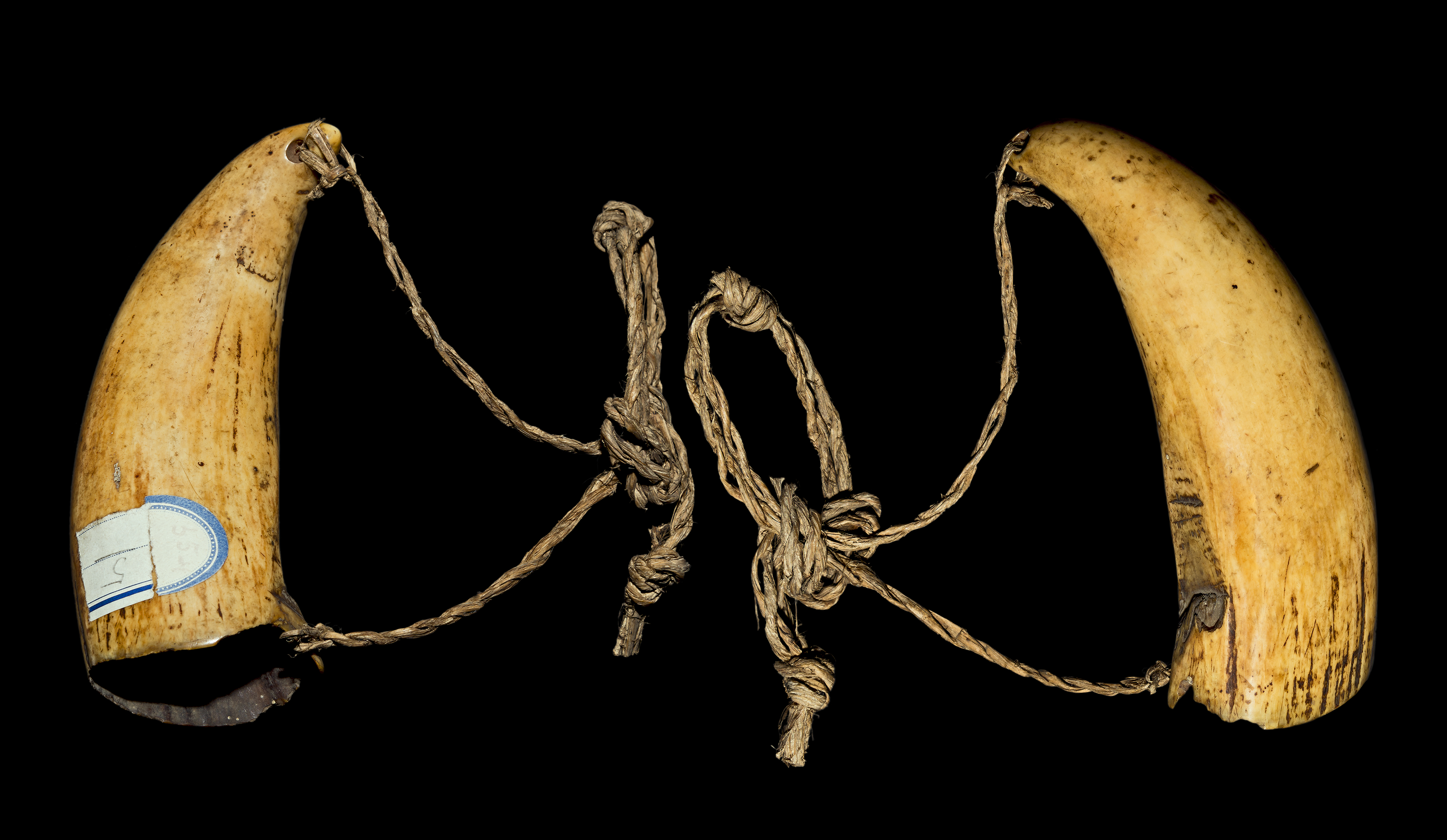 Sperm whale tooth ( Physeter macrocephalus) drilled 2 holes is provided with its hanging cord braided vine. Two views of same specimen. Population : Kanak people, New Caledonia Collector and collection: Théophile Savès Date of collection: the nineteenth century (4th Quarter) Materials: Ivory and woven plant fiber Size : 165x13x4.5 cm